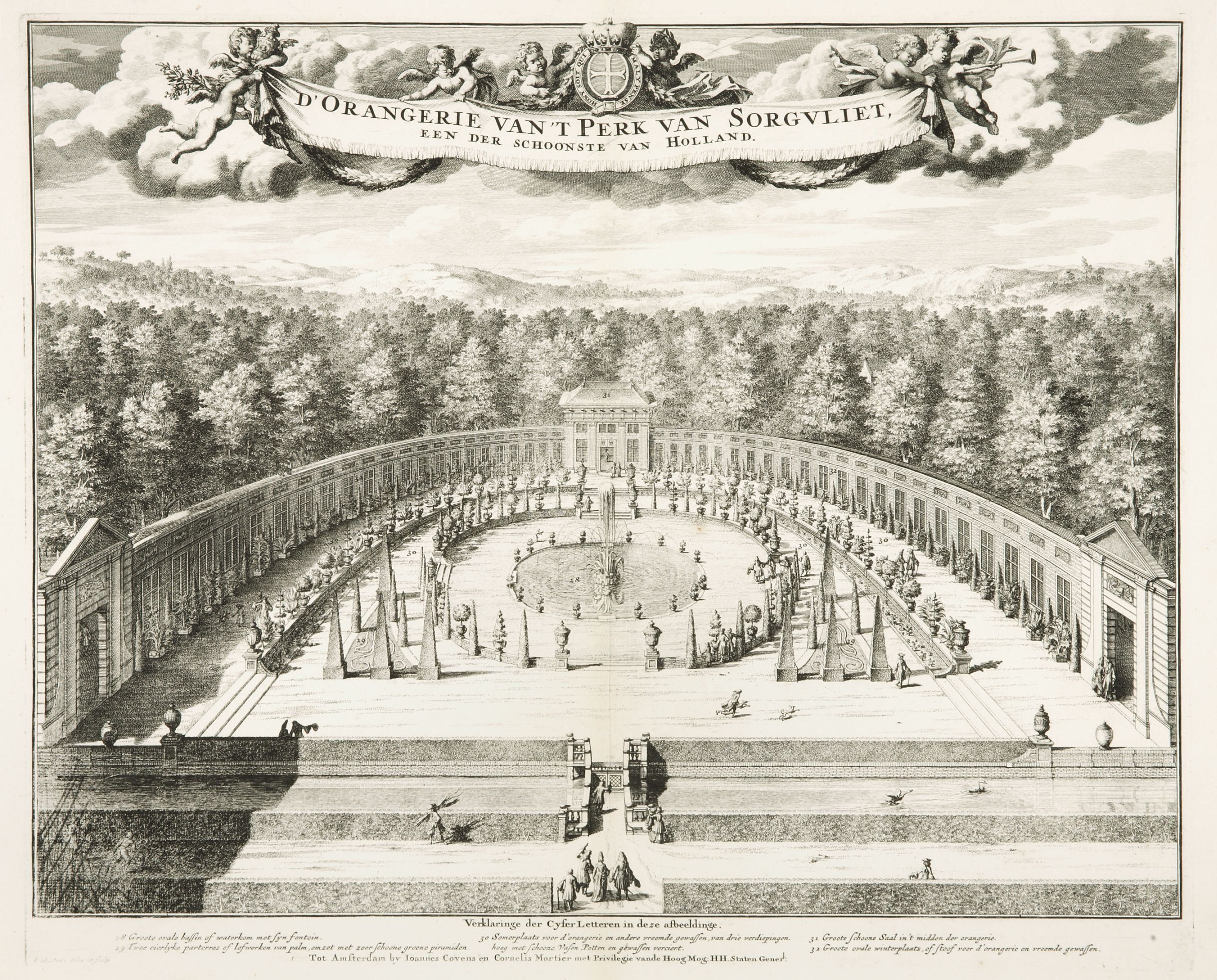 Orangery of the Catshuis, The Hague, The Netherlands.